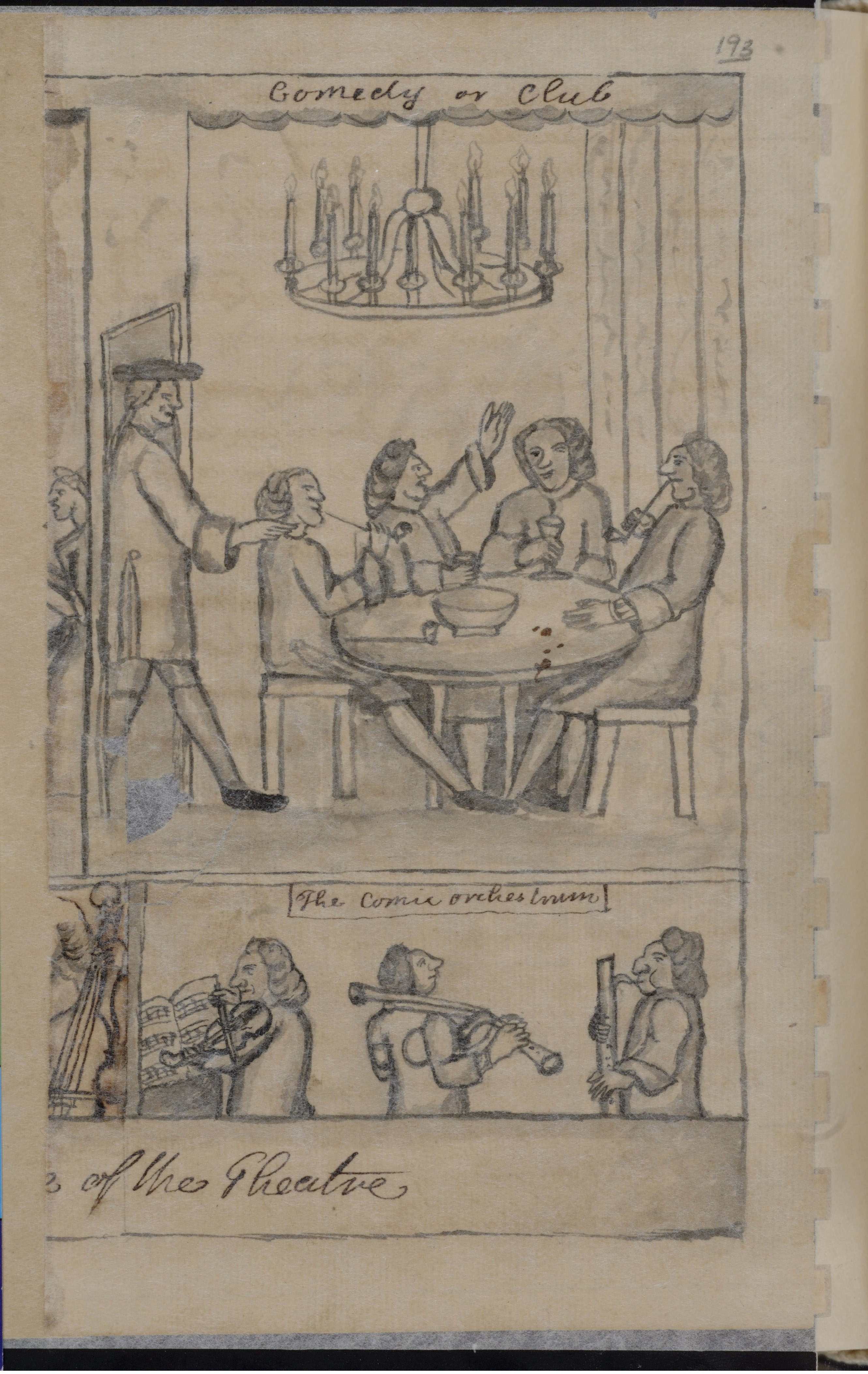 The history of the ancient and honorable Tuesday club: From the earliest ages down to this present year. Annapolis, ca 1755. Part of the collection at the John Work Garrett Library of the Johns Hopkins University.